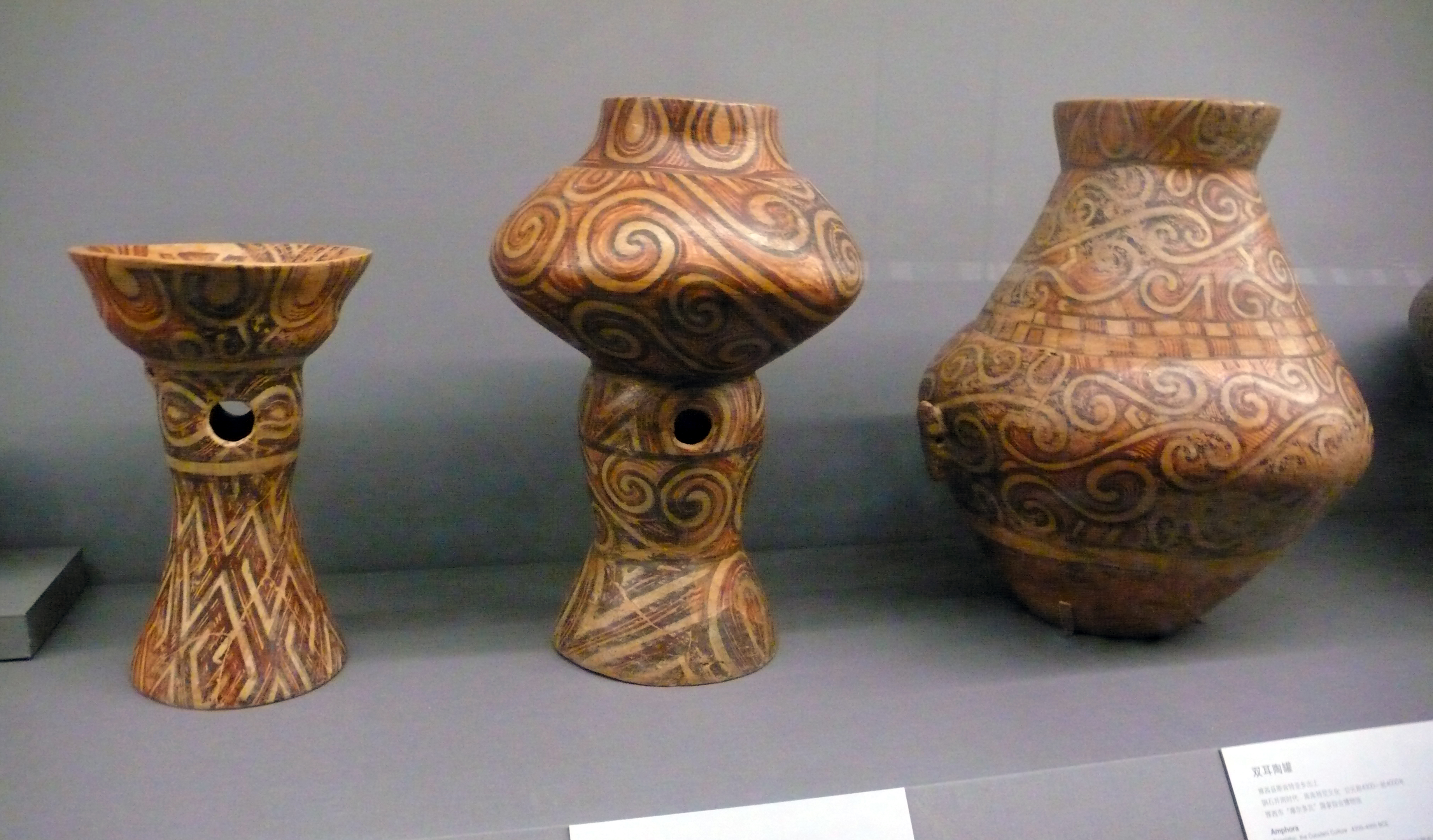 Bowl on stand, Vessel on stand, and Amphora. Eneolithic, the Cucuteni Culture, 4300-4000 BCE. Found in Scânteia, Iași, Romania. Collected by the Moldavia National Museum Complex.